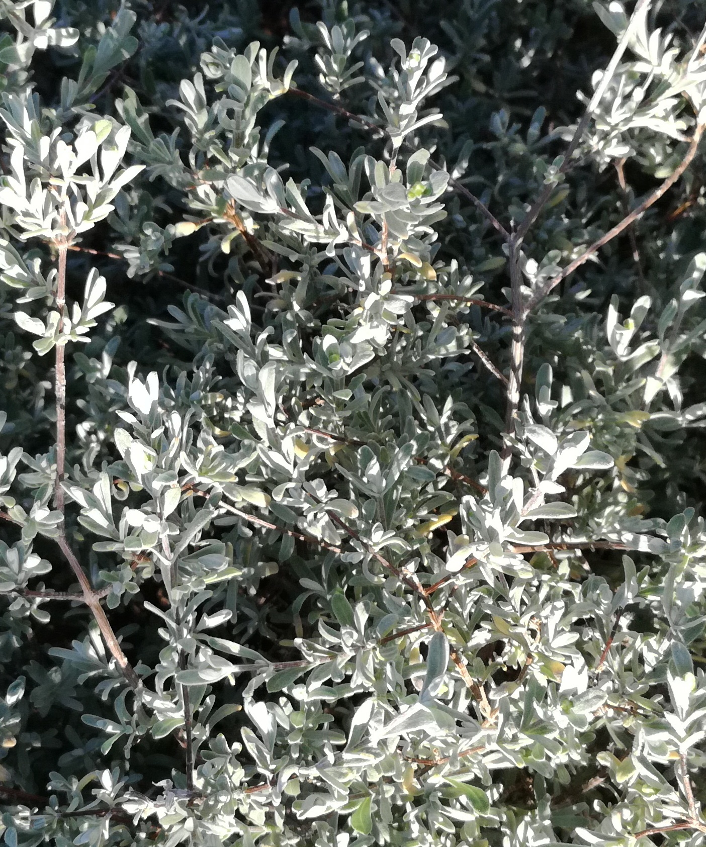 Pteronia incana - Asbos - Karoo Desert National Botanical Garden